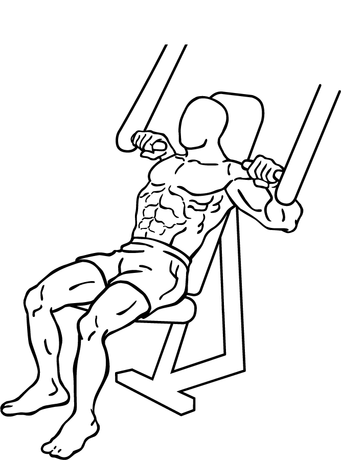 an exercise of chest